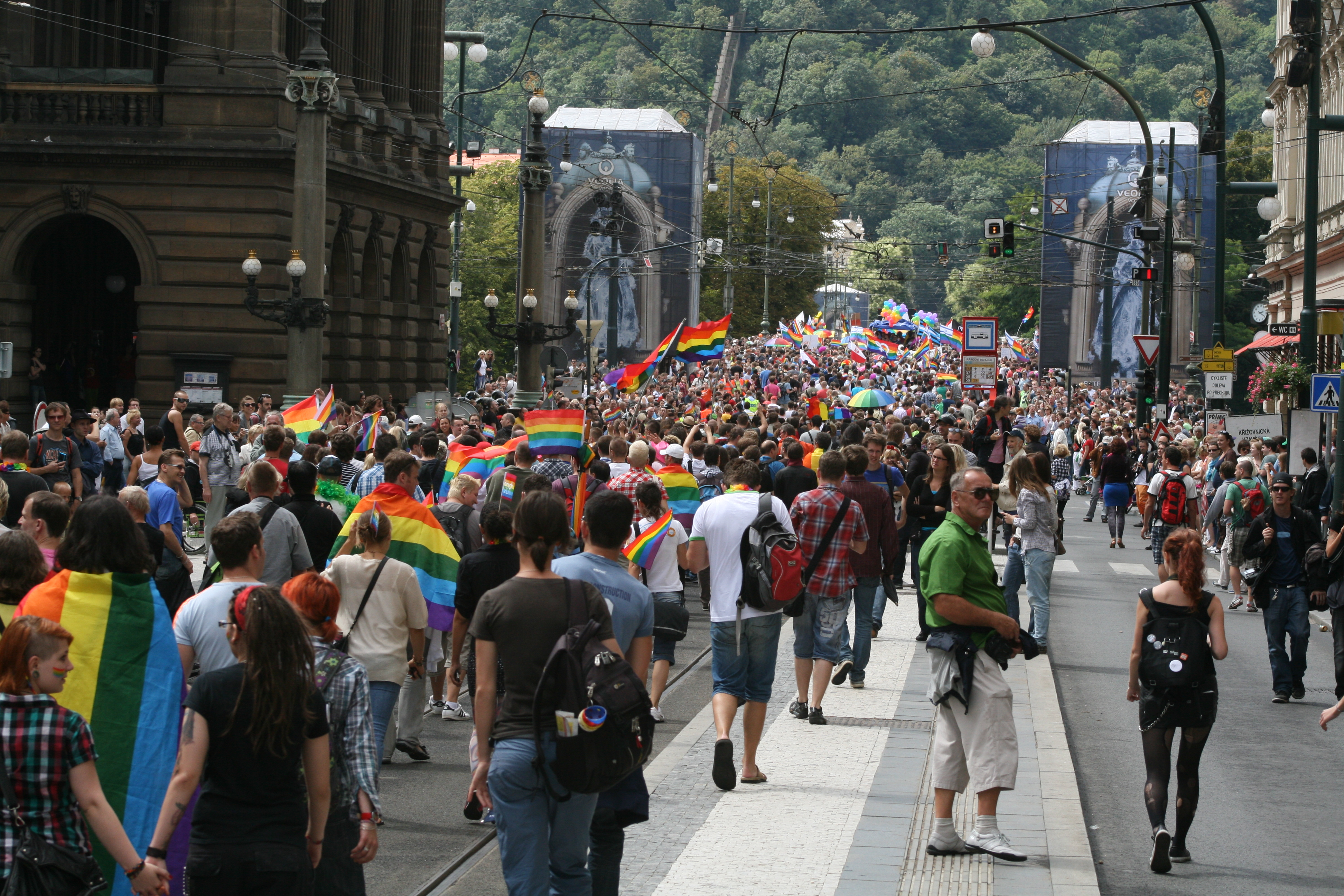 Prague Pride 2011, The parade at Národní street near the National Theatre.